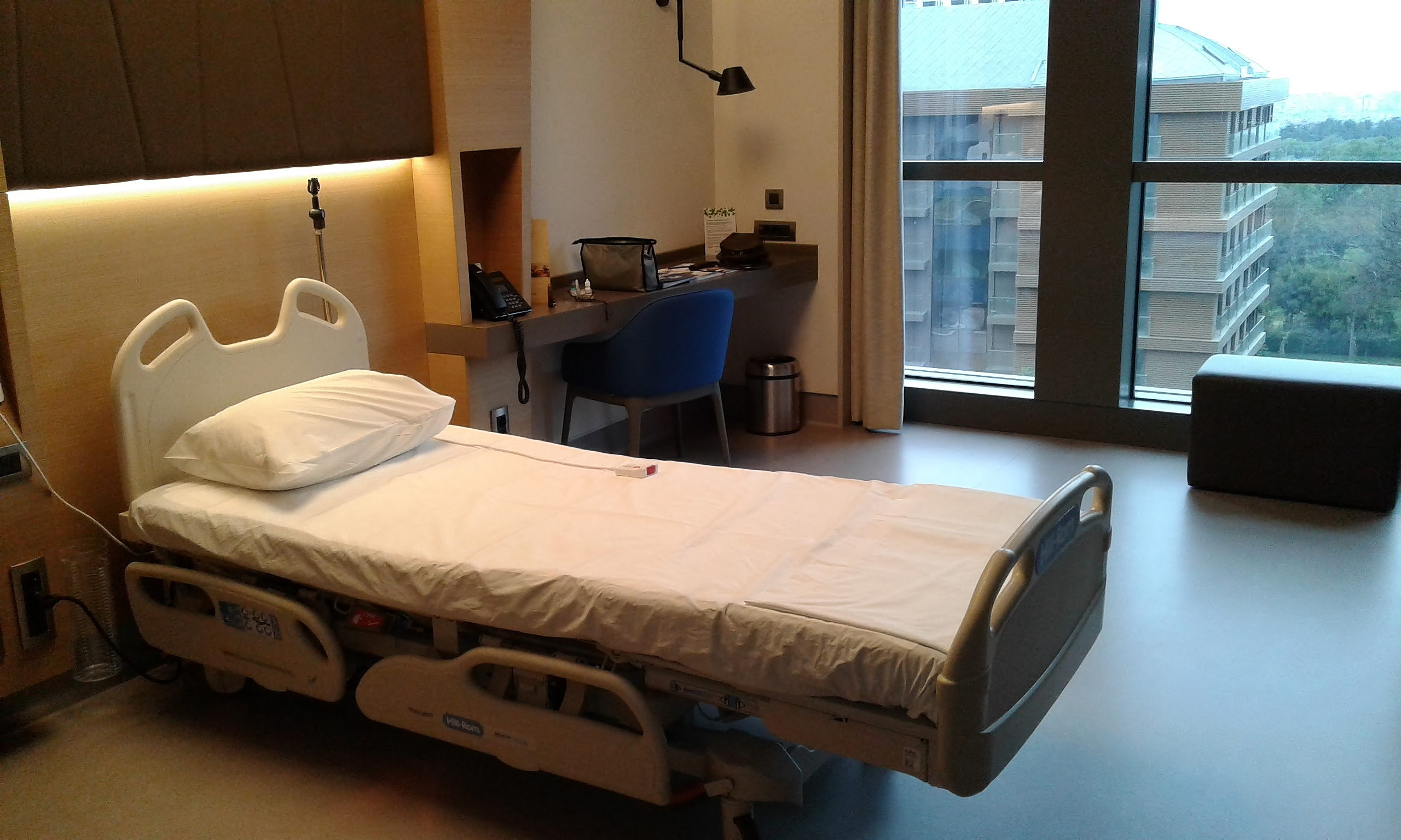 Sick room at Acıbadem Hospital in Altunizade, Üsküdar, Istanbul, Turkey